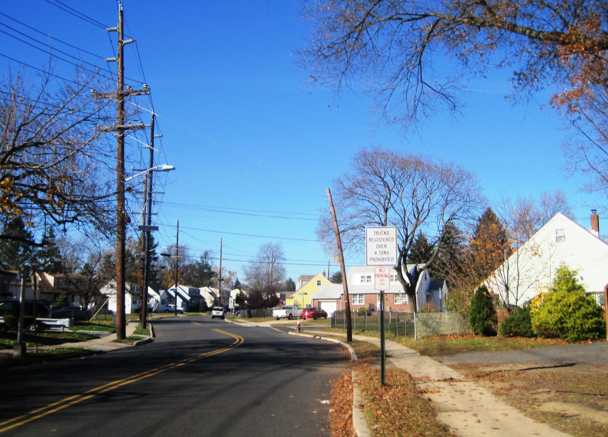 Photo of Orchard Heights, New Jersey, an unincorporated community within East Brunswick, Middlesex County. Photo taken looking north along Merrill Avenue from Cranbury Road (County Route 535).